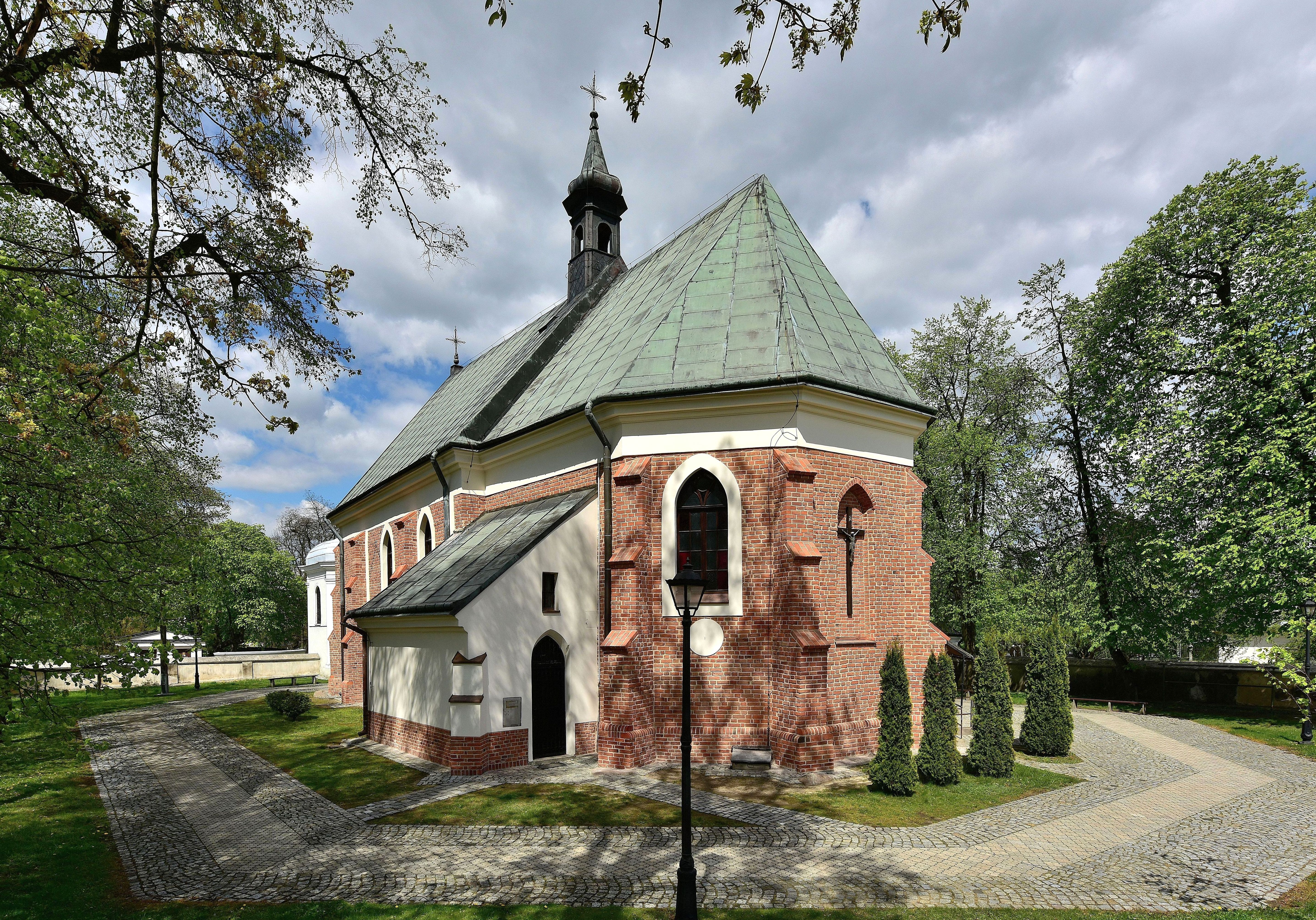 Saint James church in Tarchomin district in Warsaw